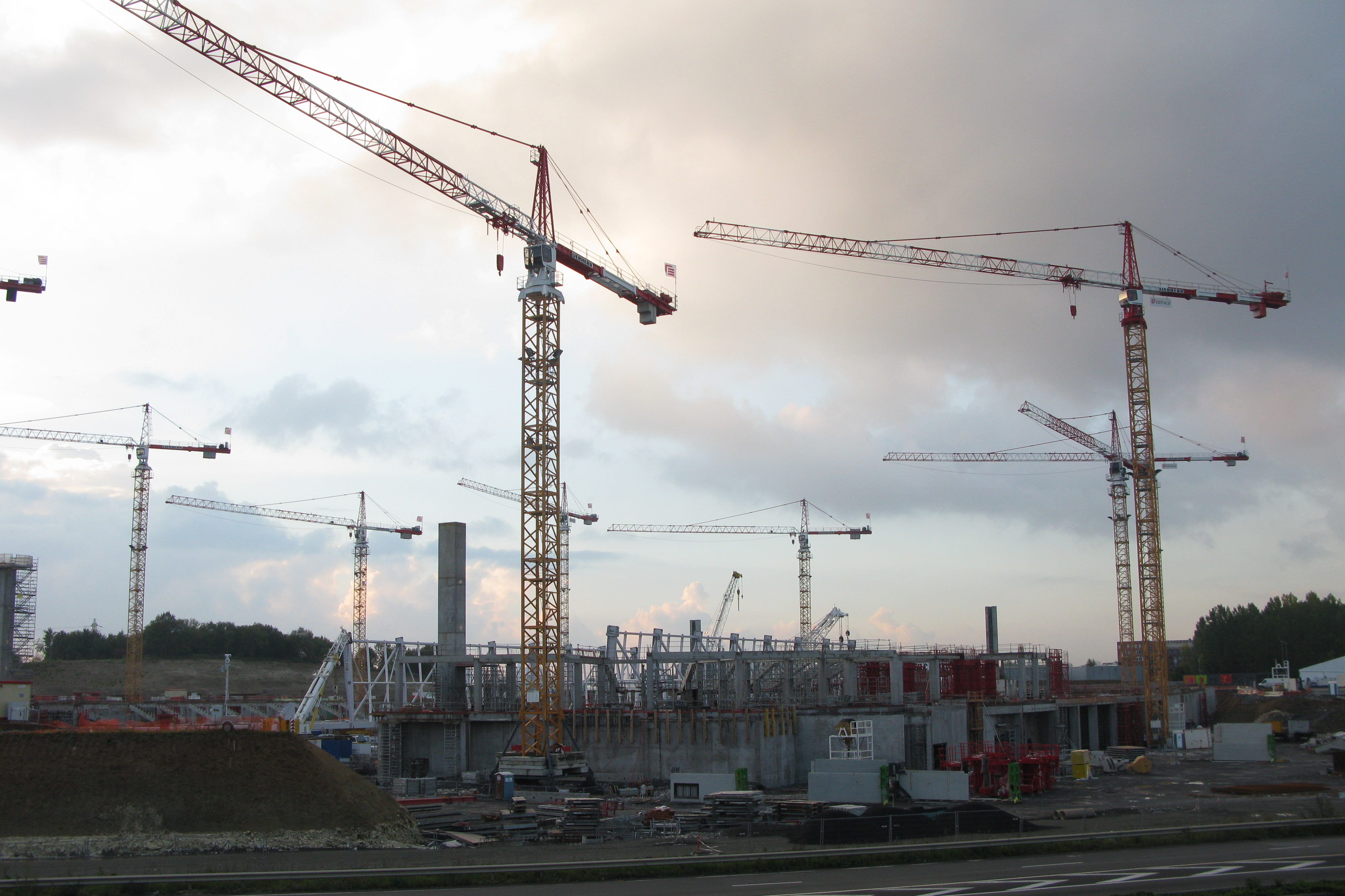 Grand stade Lille Métropole in construction in Villeneuve d'Ascq in September, 2010.